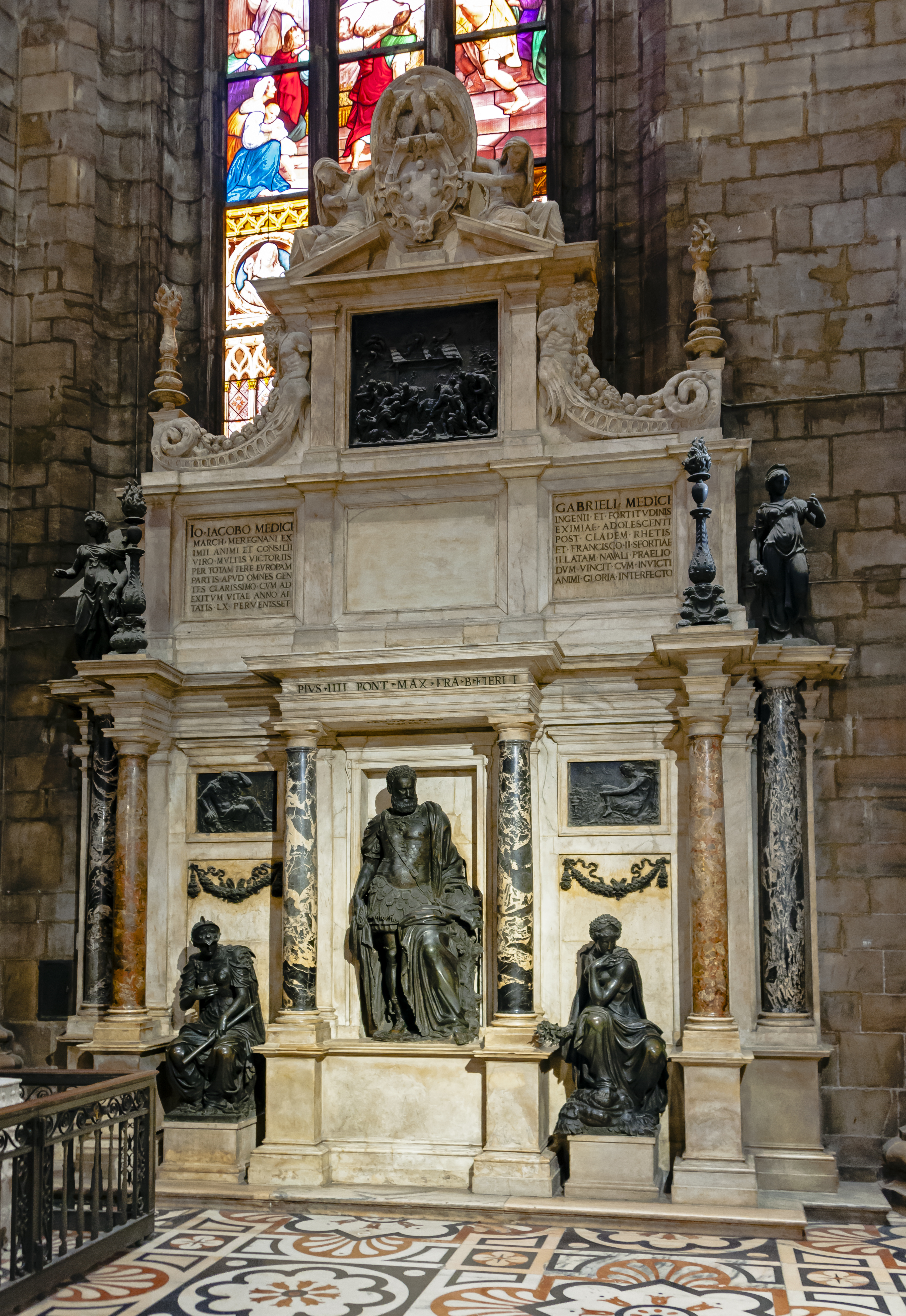 Grave of Gian Giacomo Medici in Il Duomo, Milan